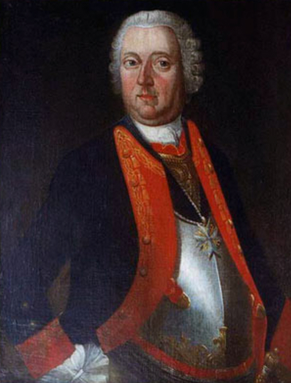 Portrait of Johann Christian Rölemann Quadt von Wickrath (1699-1756), Prussian Major-General. Killed in action in the battle of Lobositz